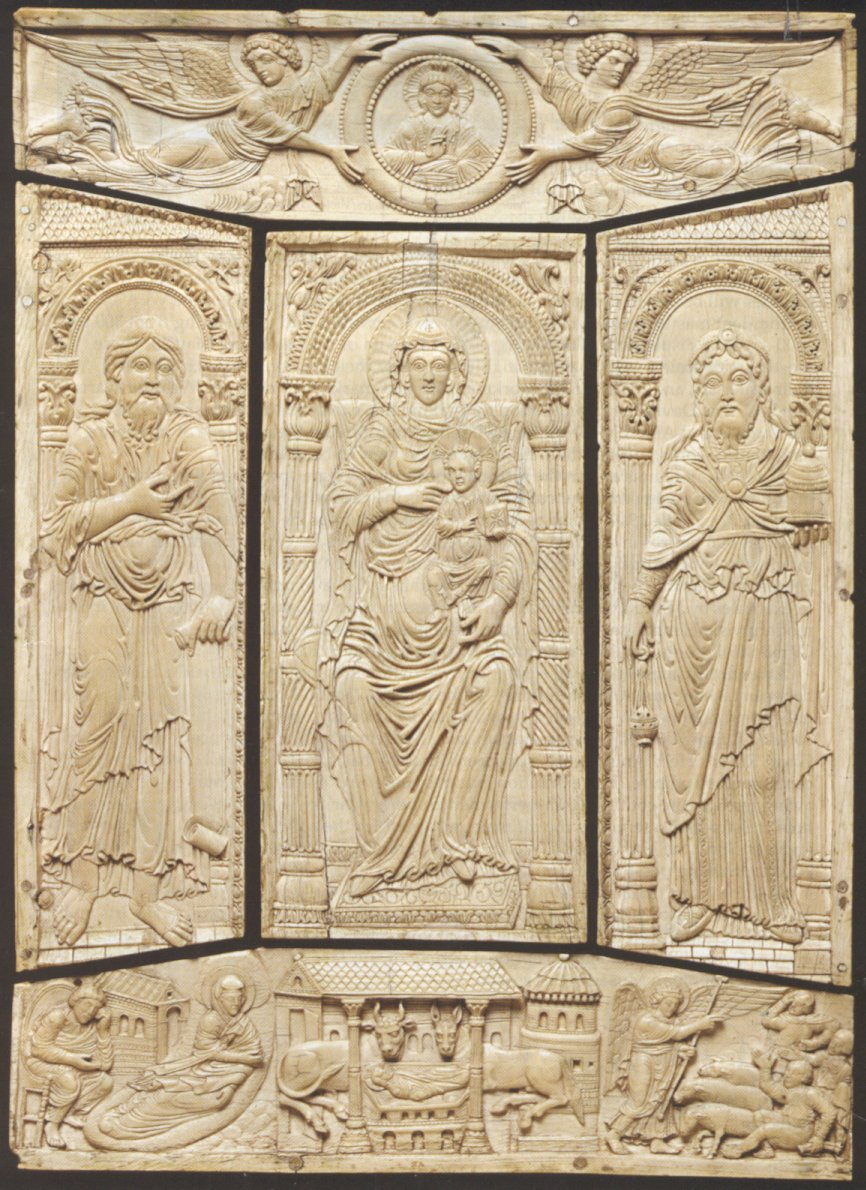 Ivory cover of the Lorsch Gospels, c. 810, Carolingian, Victoria and Albert Museum